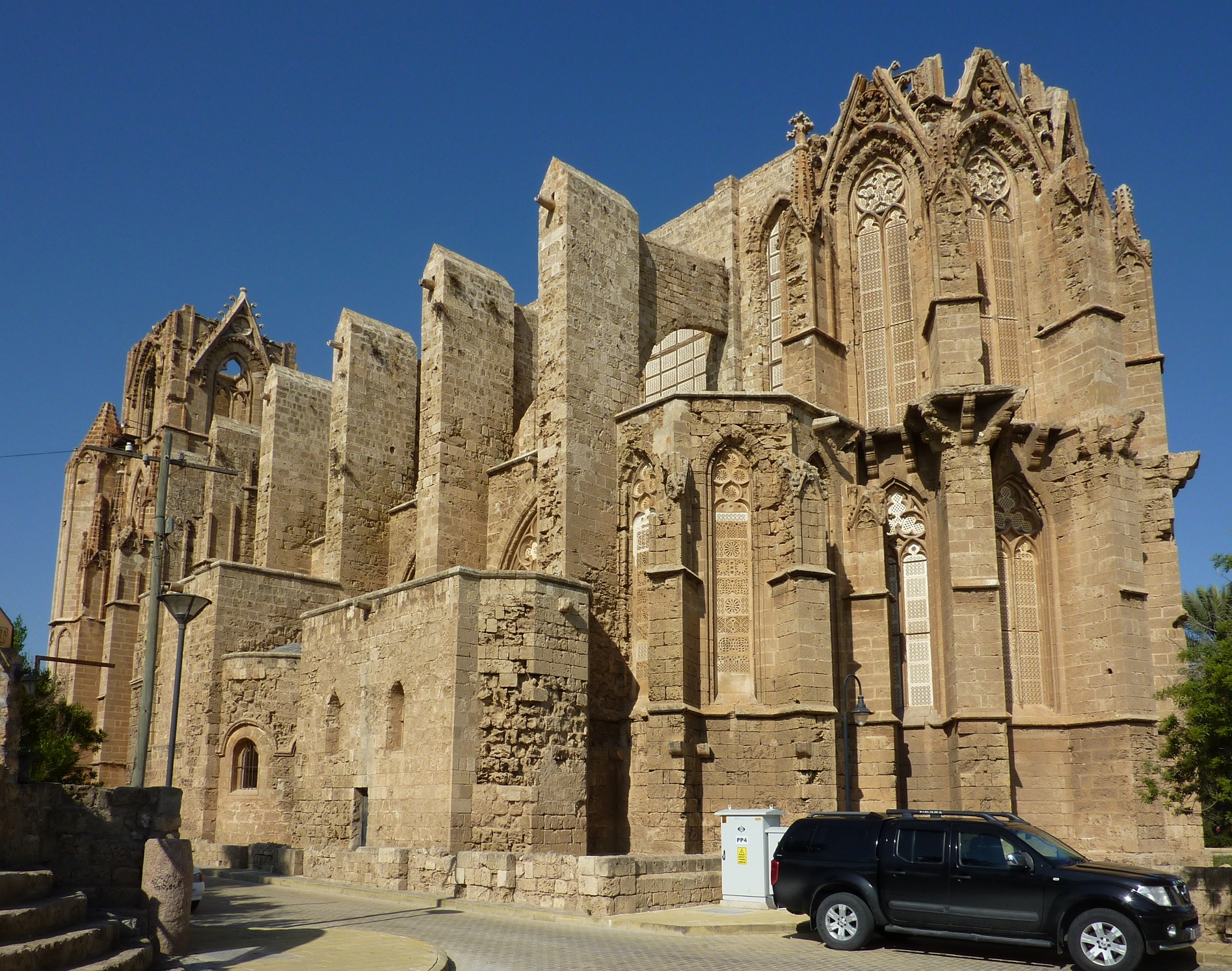 Lala Mustafa Pasha Mosque (Saint Nicholas Cathedral, Famagusta)